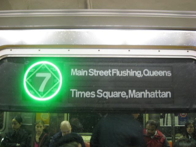 This upgrade is found on the side curtains only, on all 7 train stock.